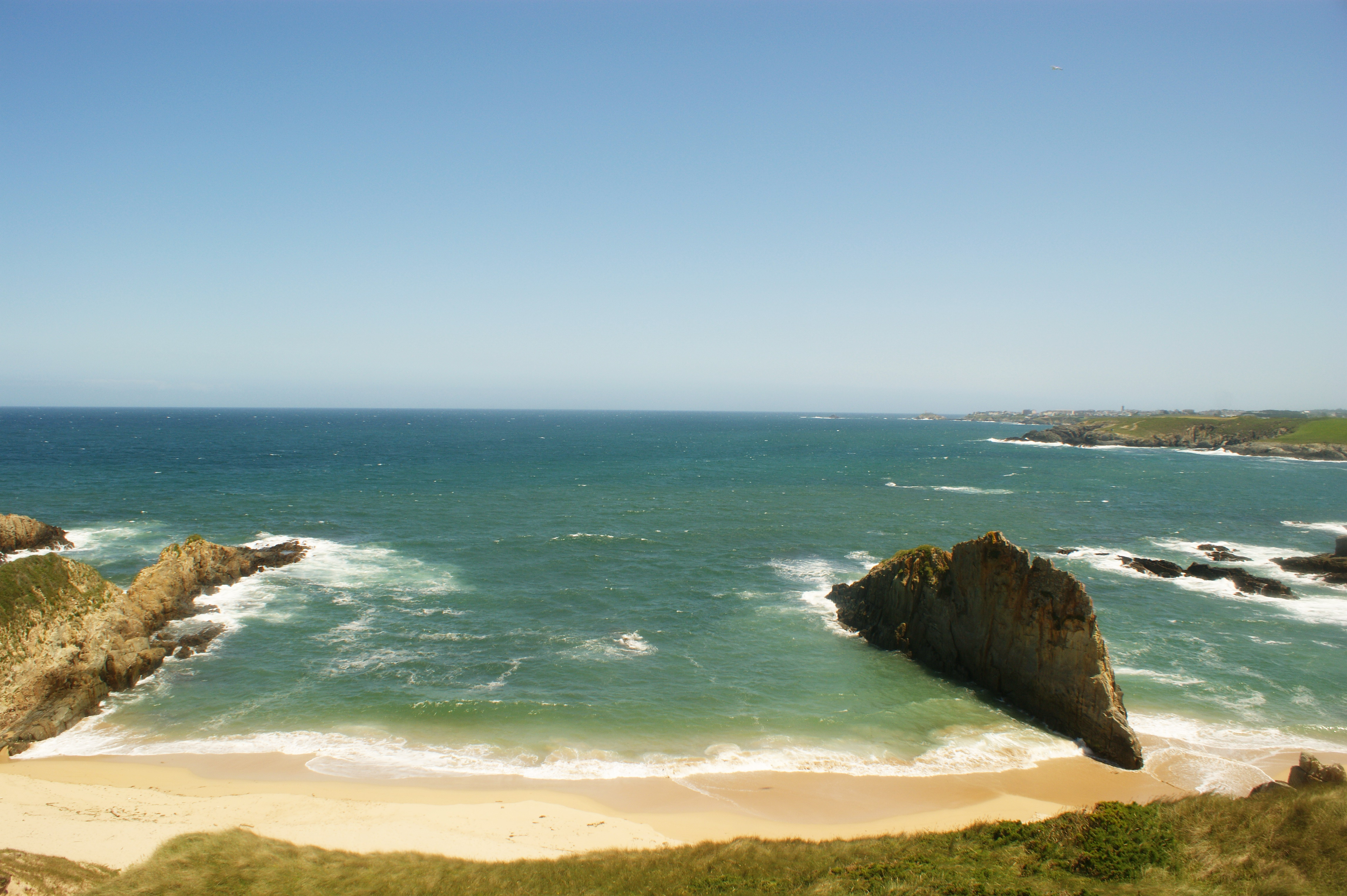 Playa A Mexota